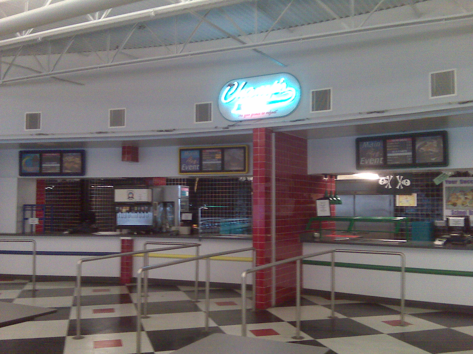 The cafeteria at Port Charlotte High School